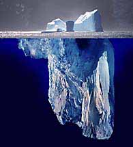 Old Wikisource logo used until 2006.